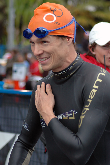 Simon Whitfield at the 2008 World Triathlon Championships. Wilson Wong photo.